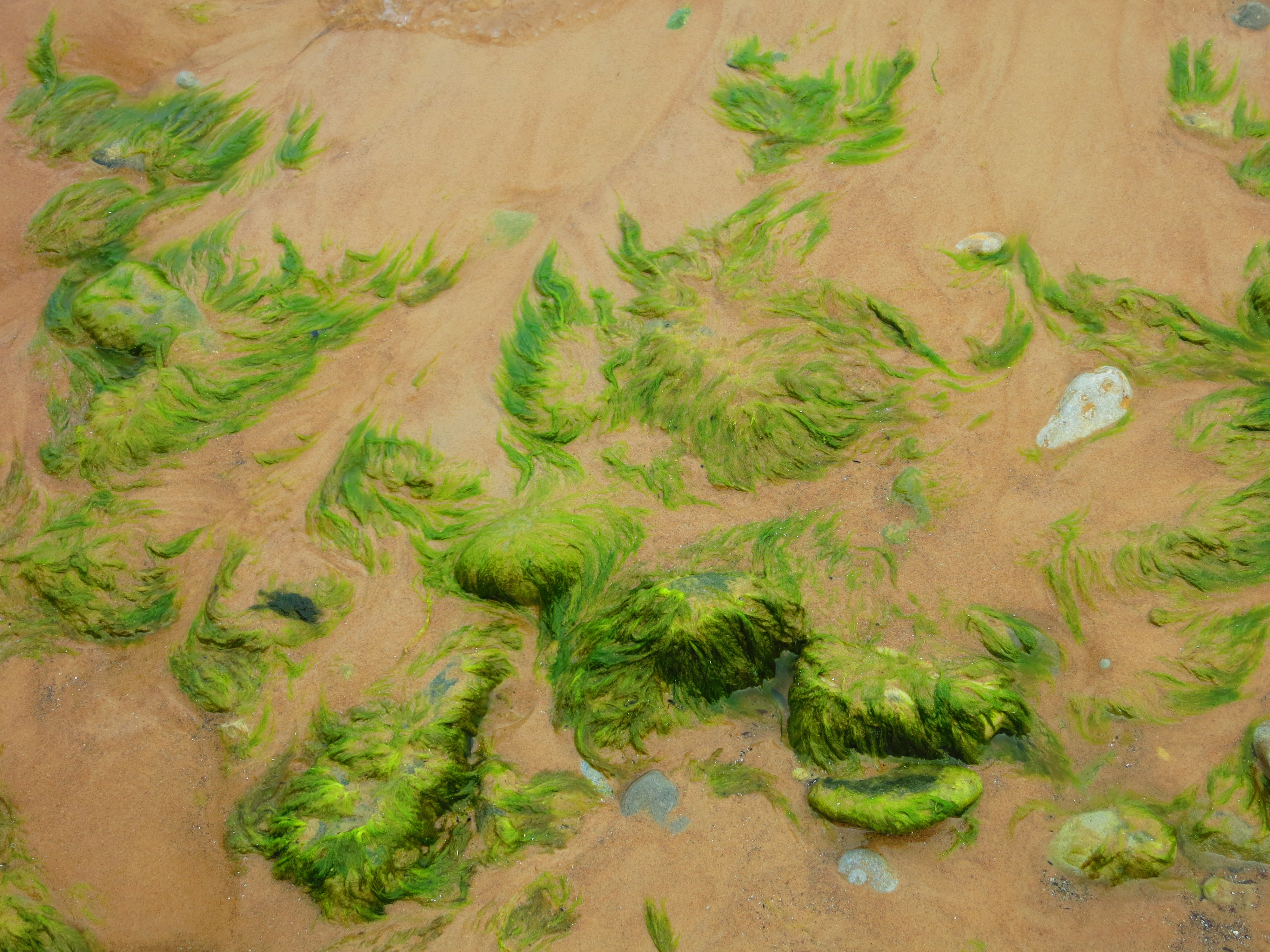 Green algae on stones of Gulf of Finland in Toila (Estonia)